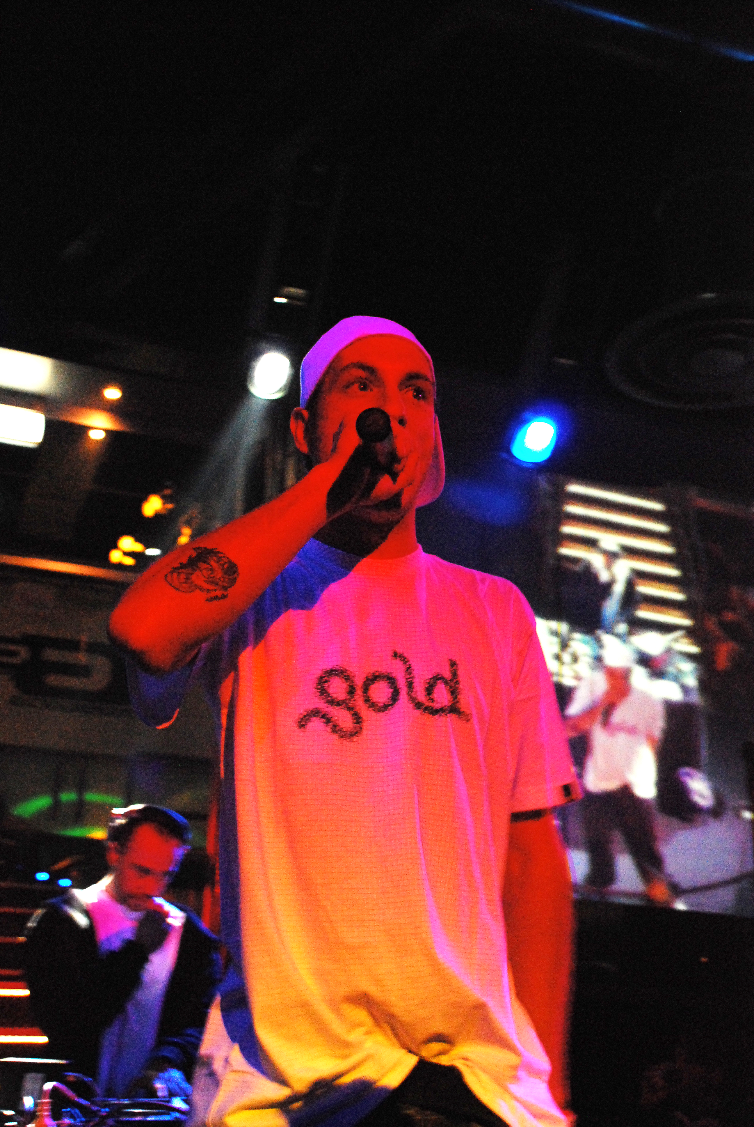 The Italian rapper Clementino during a live exhibition in 2007.